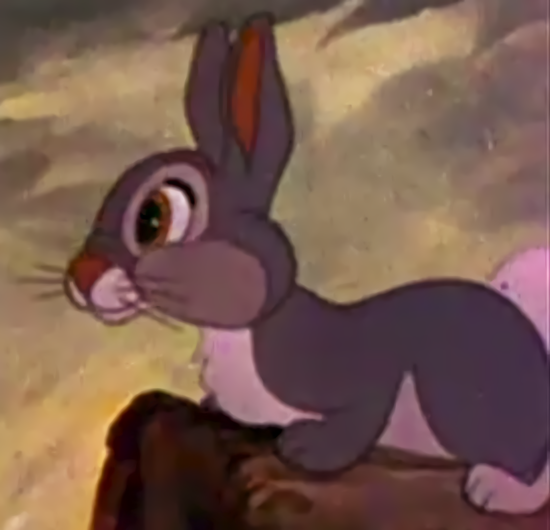 Cropped screenshot of Bambi, Thumper and Flower from the theatrical trailer for the film Bambi. Noise reduction with waifu2x.